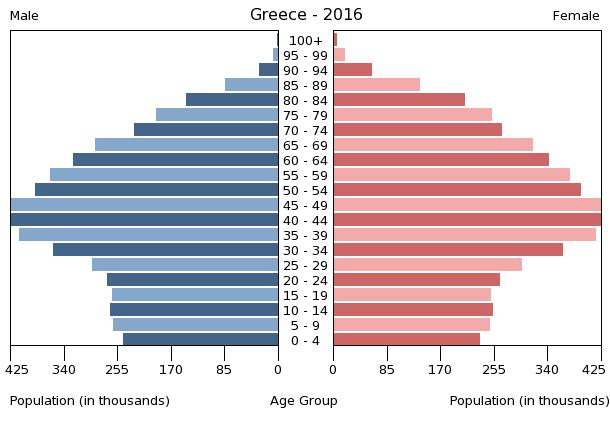 The population pyramid of Greece illustrates the age and sex structure of population and may provide insights about political and social stability, as well as economic development. The population is distributed along the horizontal axis, with males shown on the left and females on the right. The male and female populations are broken down into 5-year age groups represented as horizontal bars along the vertical axis, with the youngest age groups at the bottom and the oldest at the top. The shape of the population pyramid gradually evolves over time based on fertility, mortality, and international migration trends.